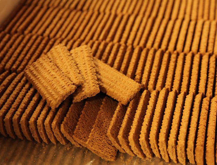 Bicciolani di Vercelli